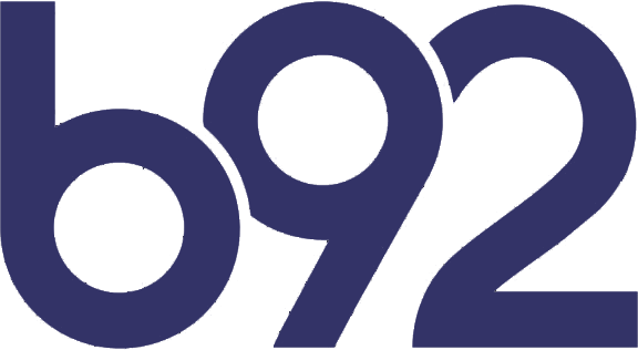 Logo of B92